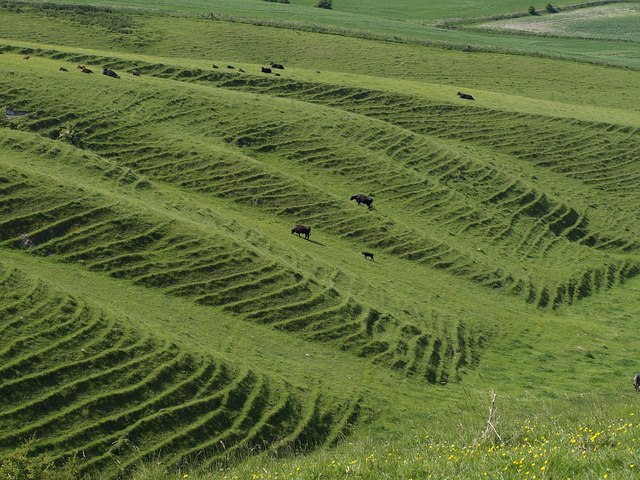 Terracettes below Morgan's Hill. A wider view of the combe shown in 1345942.